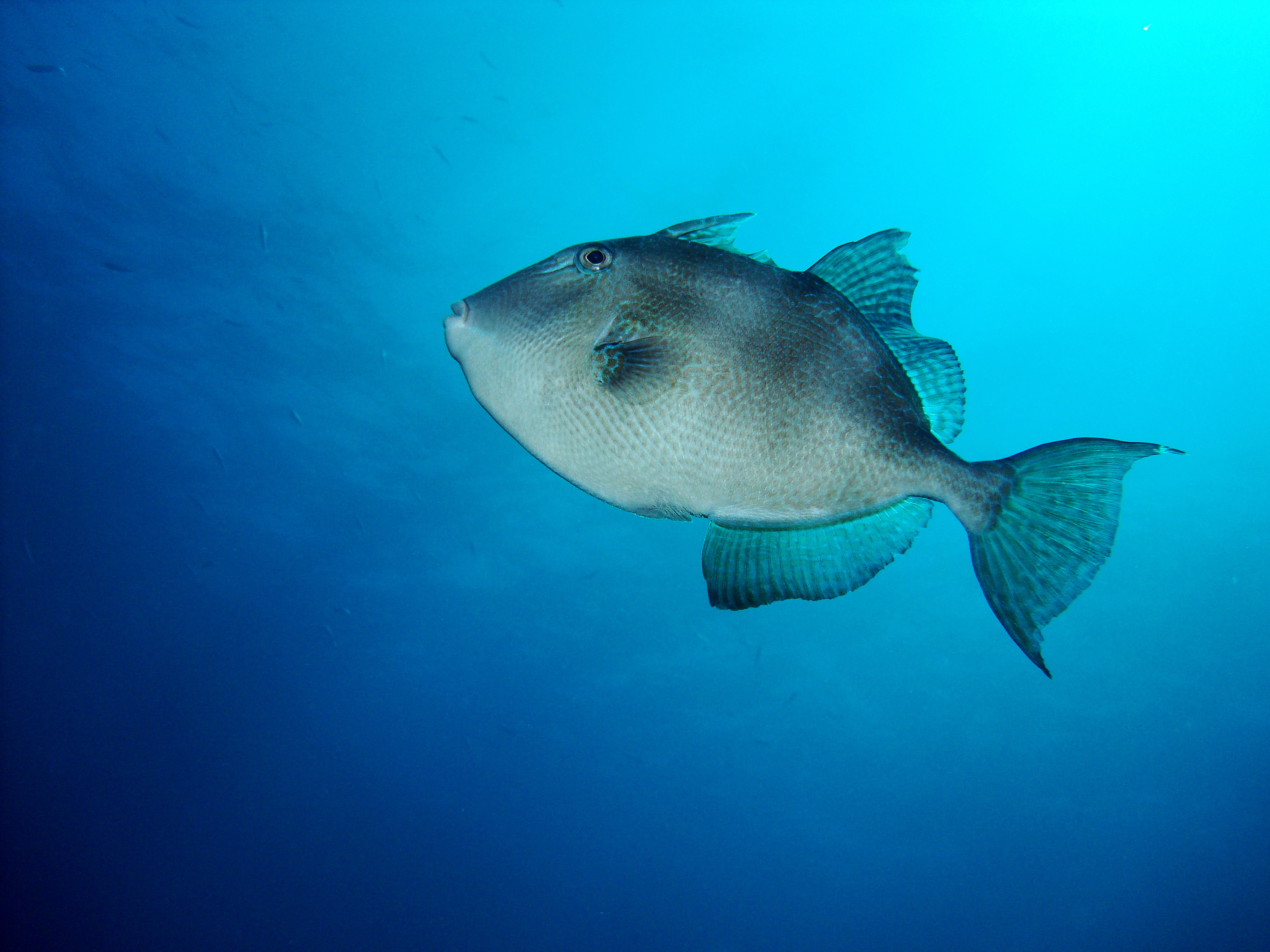 Grey triggerfish